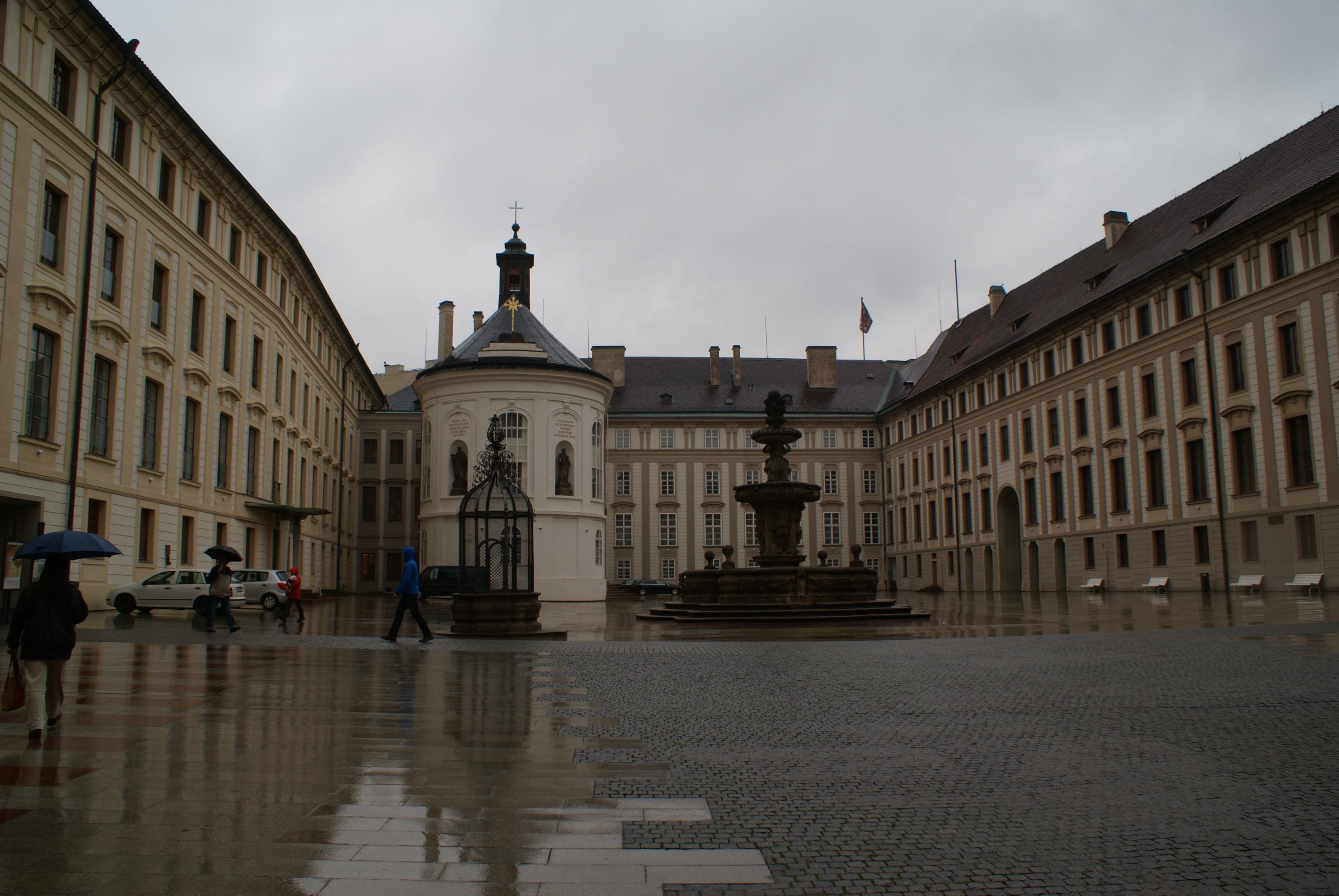 Praha's street